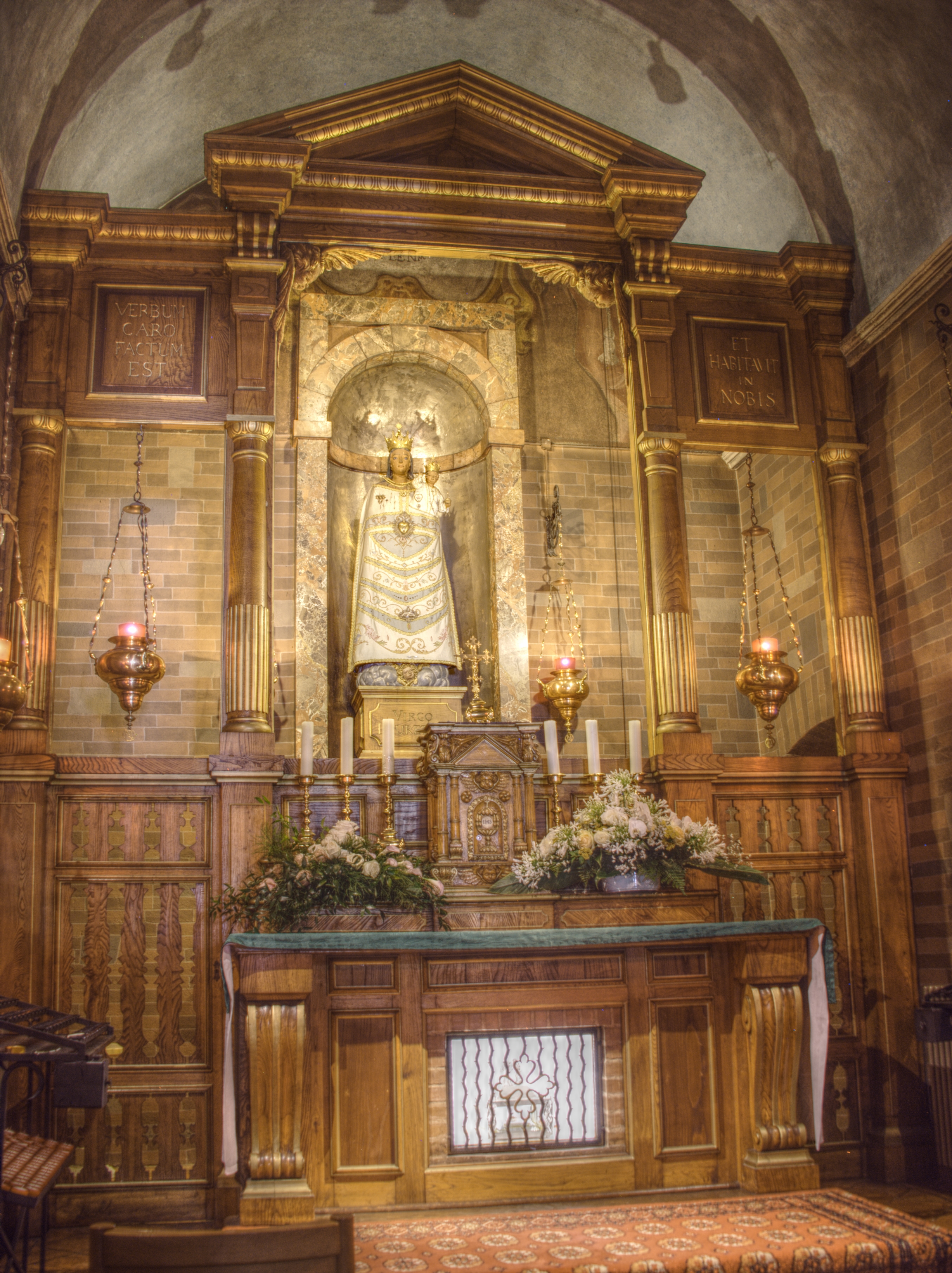 Lugano, Tessin, Switzerland - Saints Mary church of Loreto (Lugano) - Interior